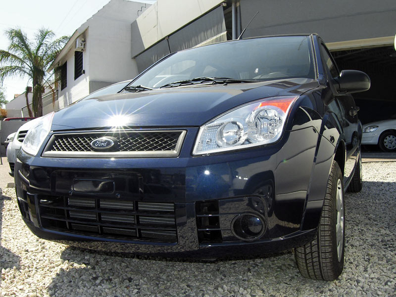 Ford Fiesta South American Market Facelift 2008.